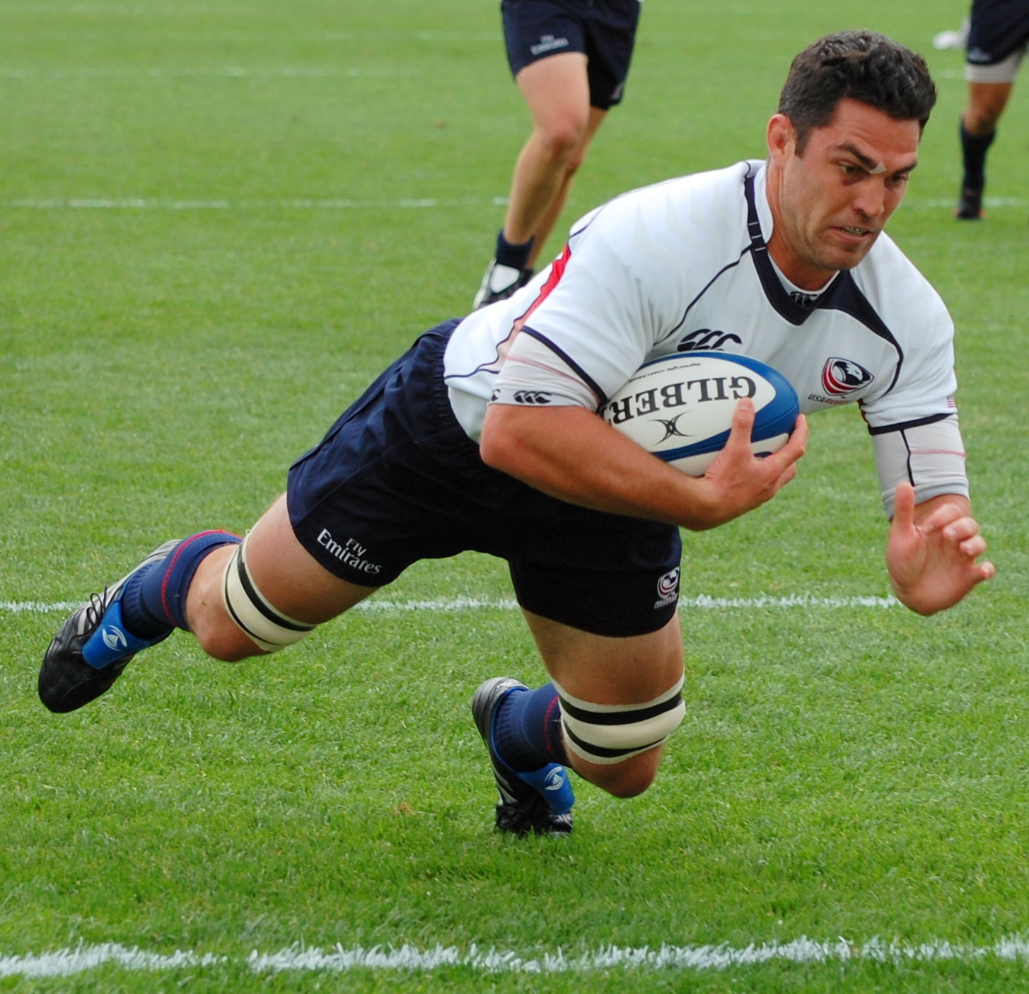 Patrick Danahy of the USA Eagles diving to score a try against Russia during the 2010 Churchill Cup.